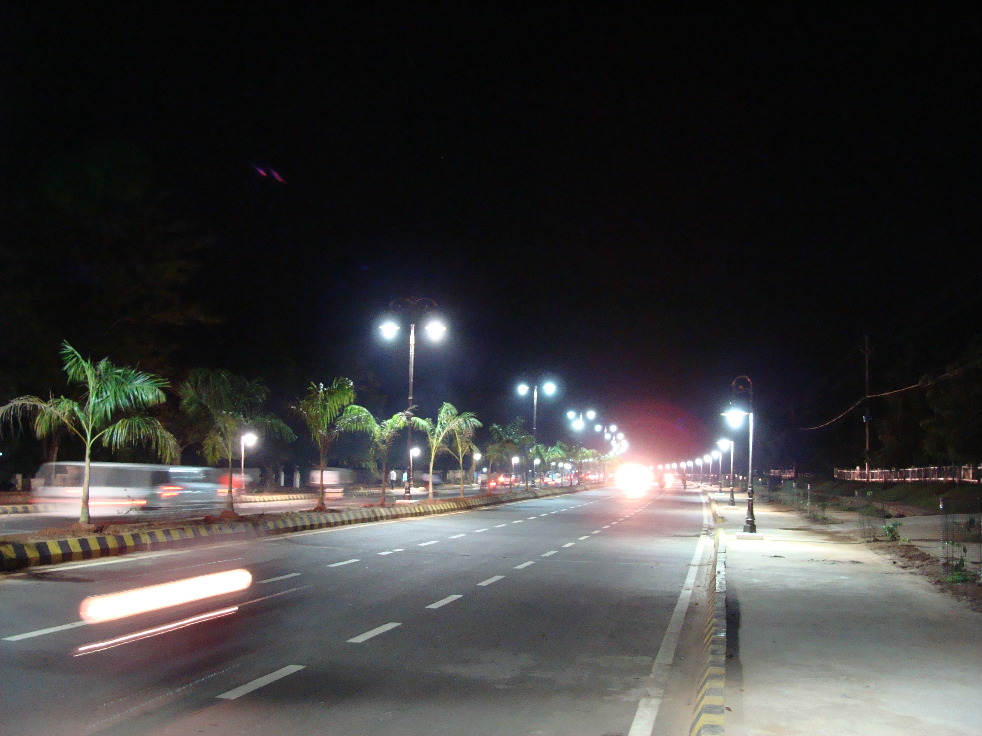 Rajpath